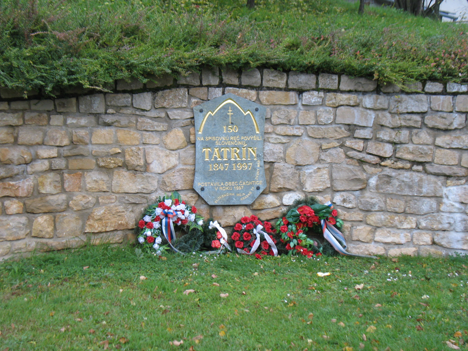 Tatrín, Čachtice